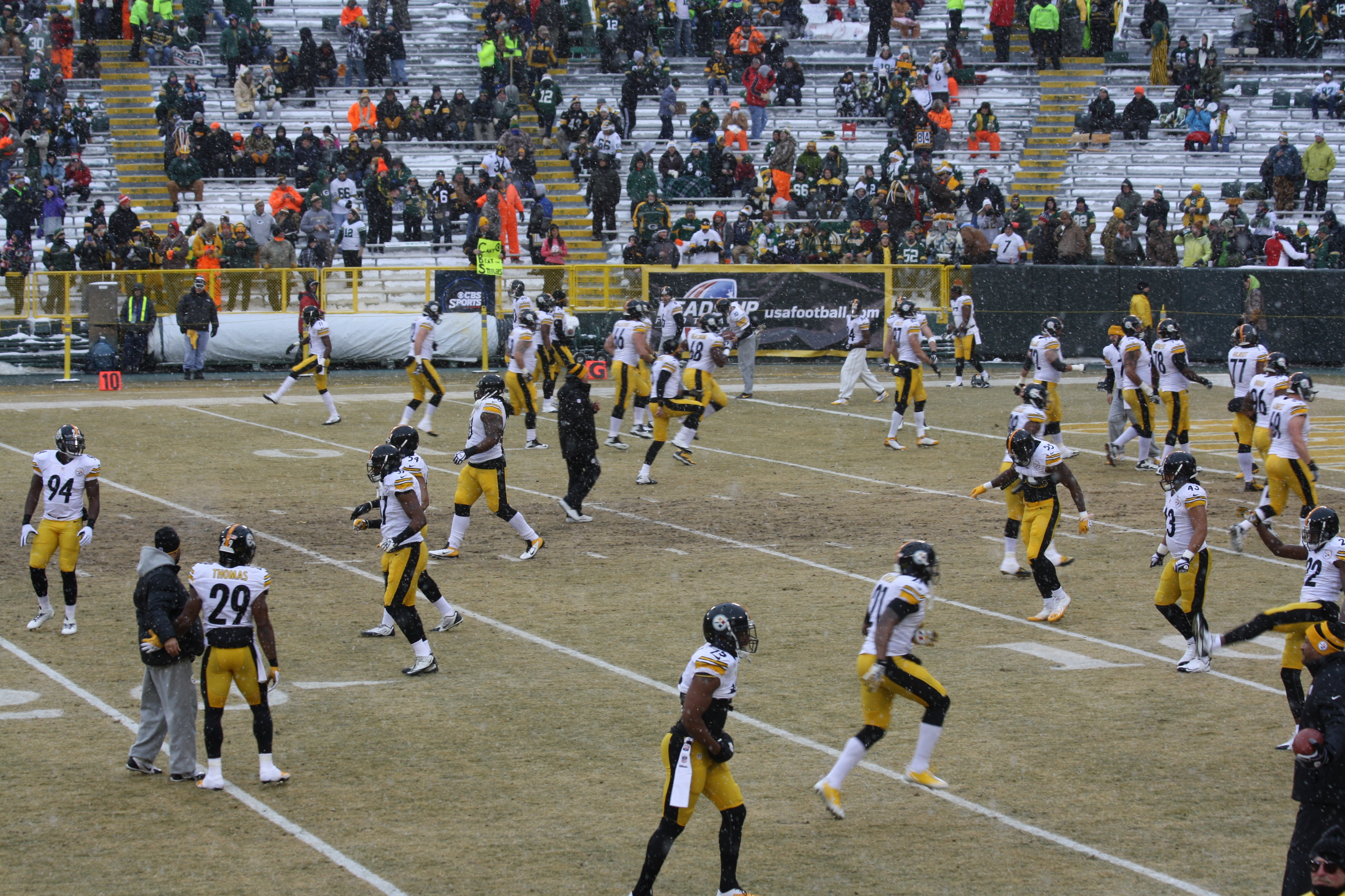 Pittsburgh Steelers players warming up before their game at the Green Bay Packers at Lambeau Field .